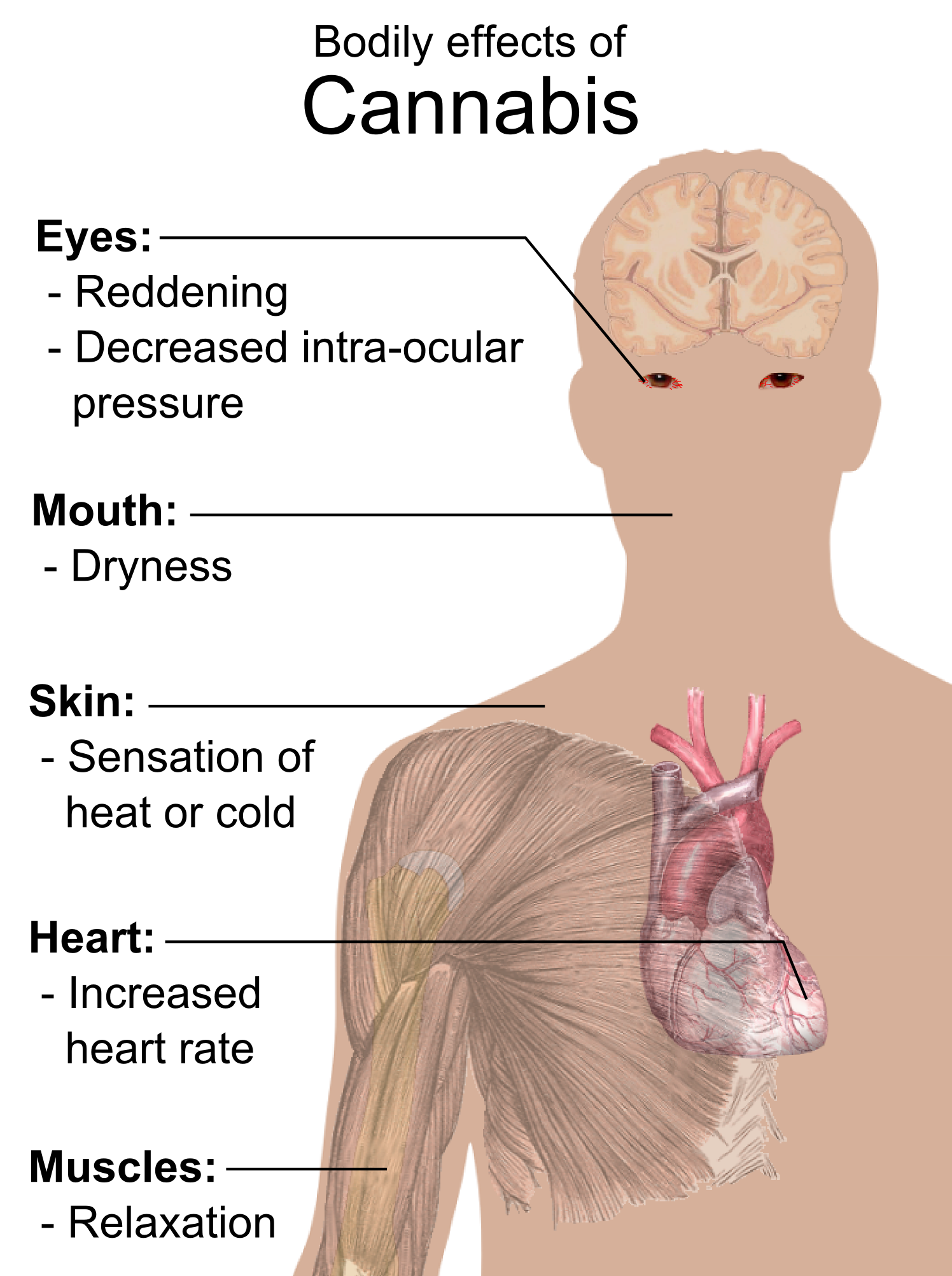 Main short-term somatic (bodily) effects of cannabis. Sources are found in main articles: Wikipedia:Cannabis_(drug)#Effects and Wikipedia:Effects of cannabis#Somatic_effects. To discuss image, please see Template_talk:Human body diagrams